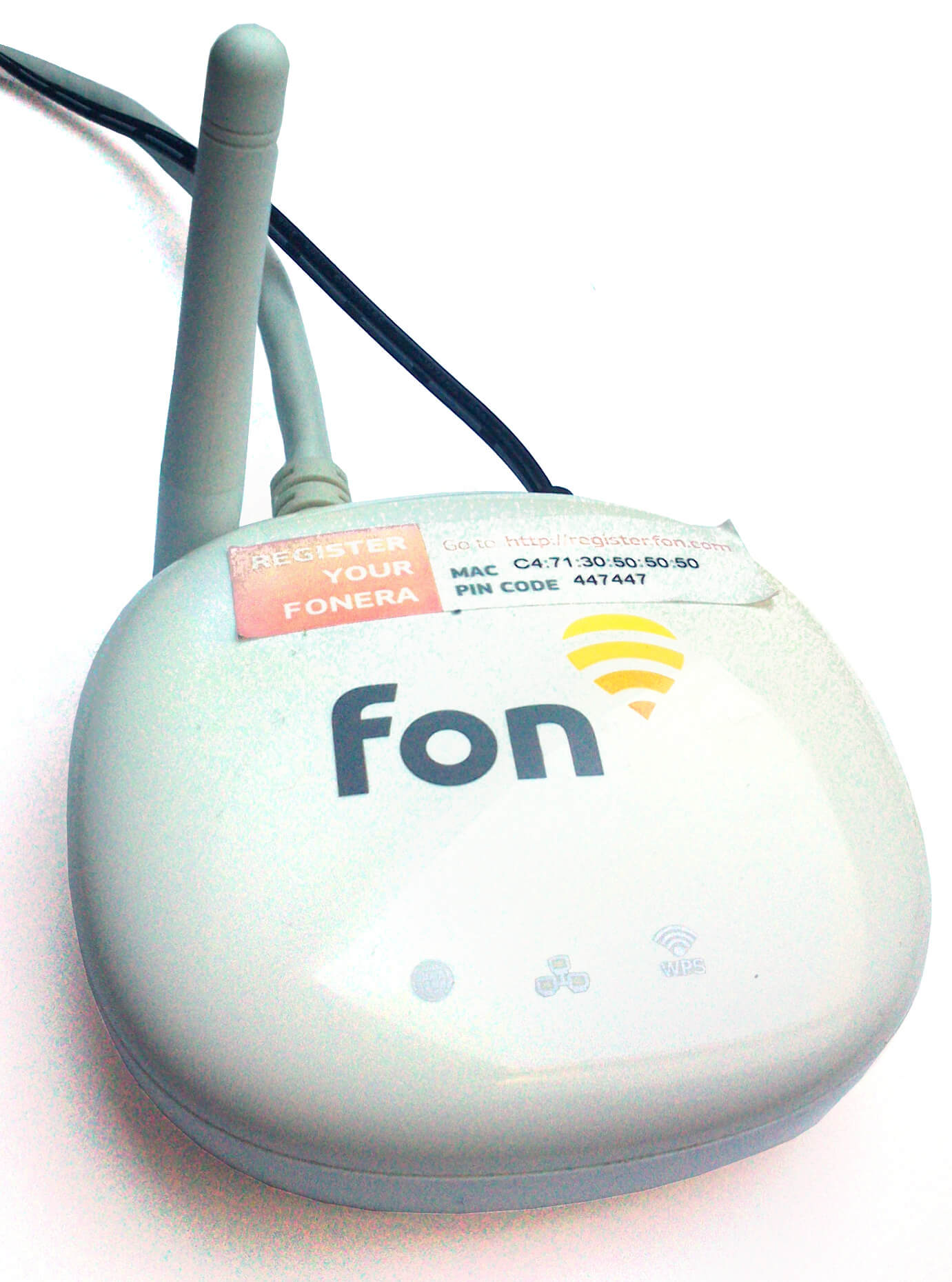 Wireless Router from company FON. Model: FON2412B